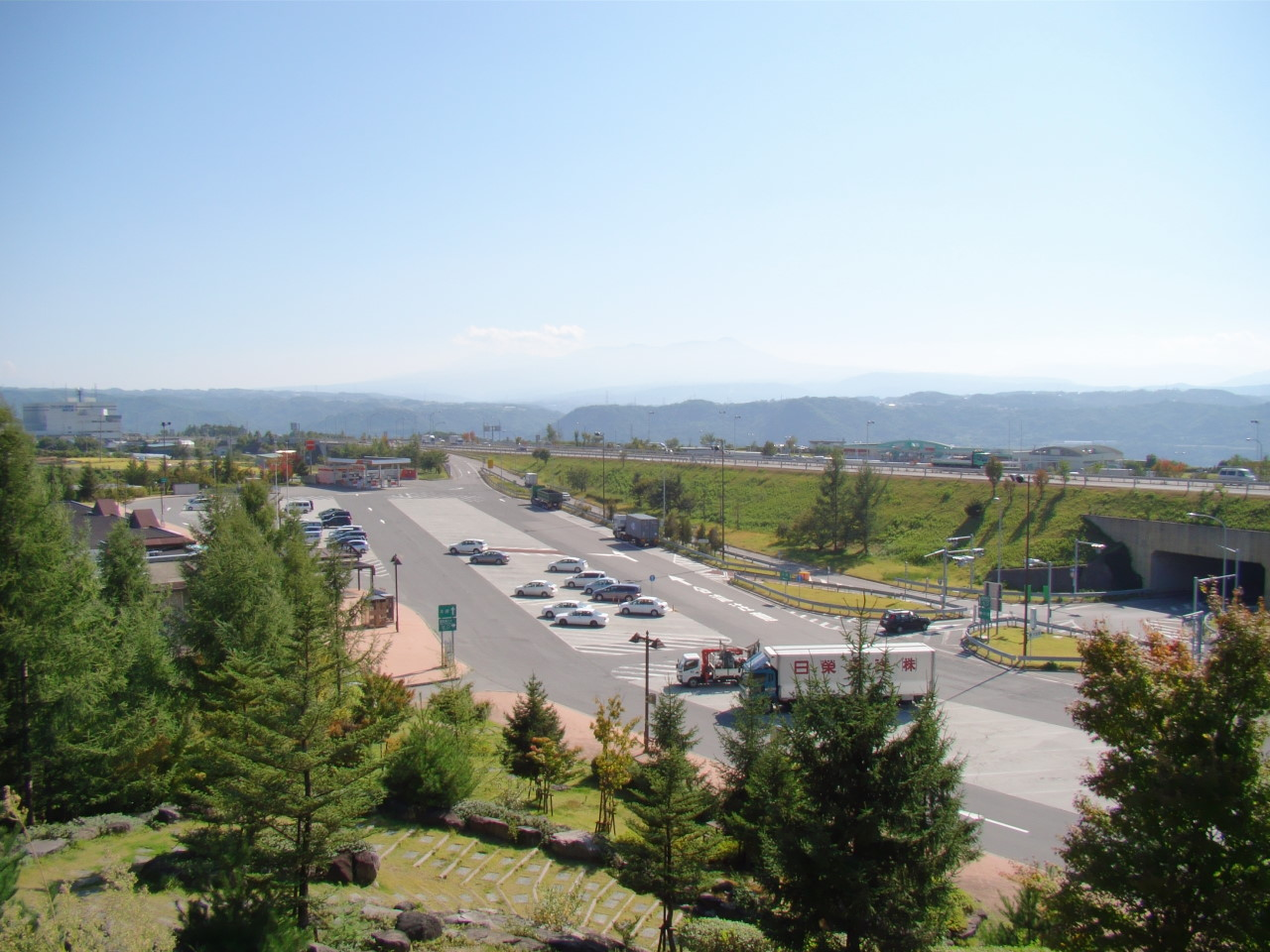 Joshin-etsu expressway Tobuyunomaru service area Nagano Japan